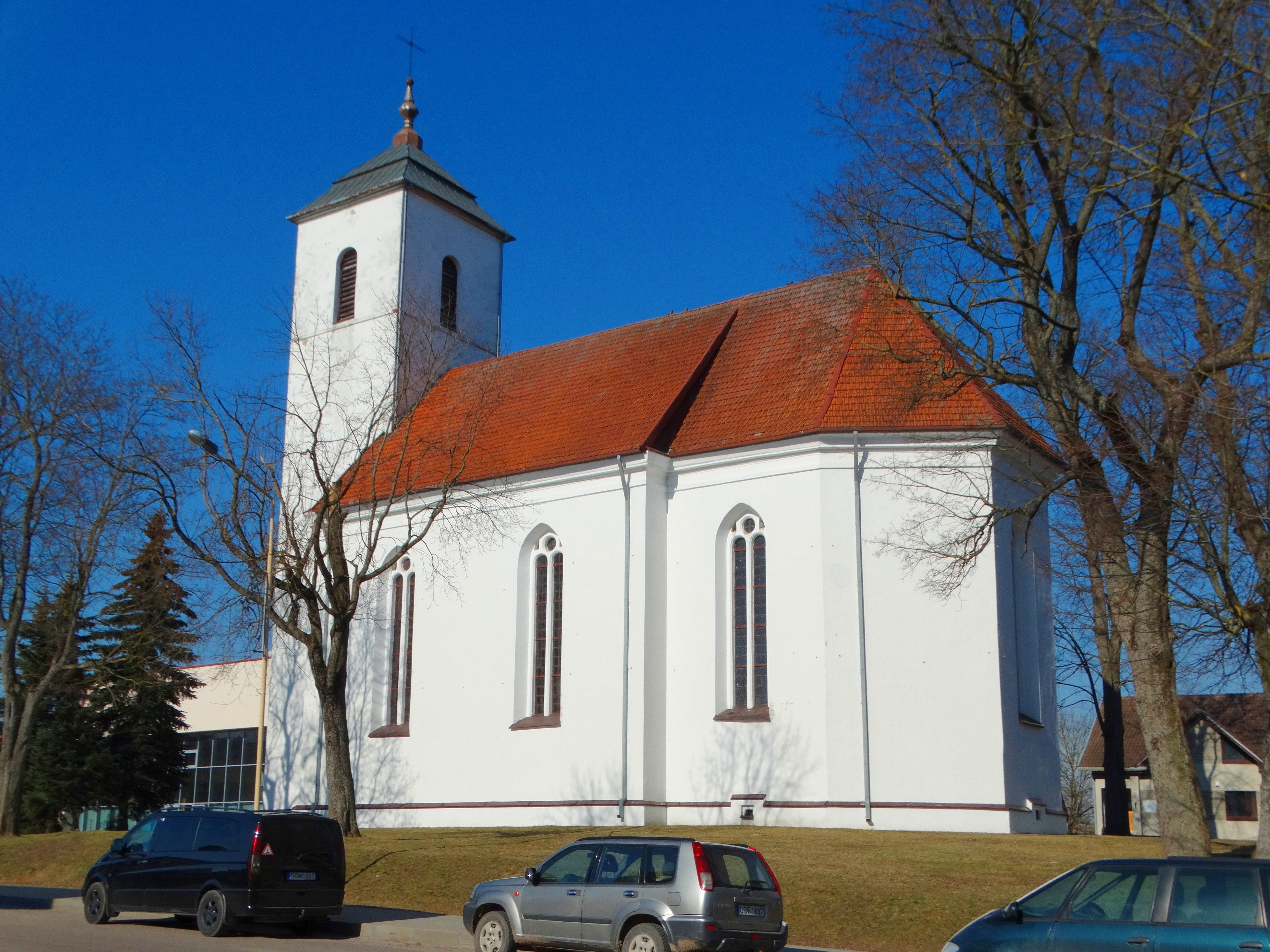 Evangelical Reformed Church, Kelmė, Lithuania